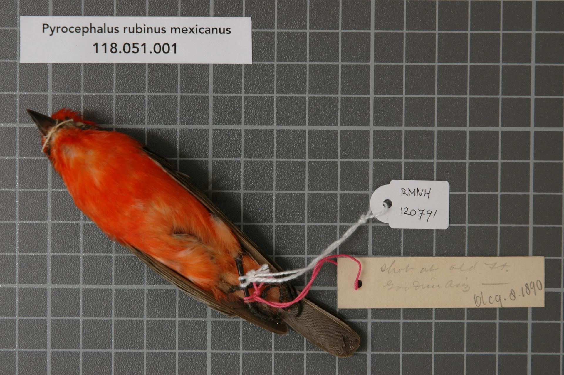 Pyrocephalus rubinus mexicanus Sclater, 1859